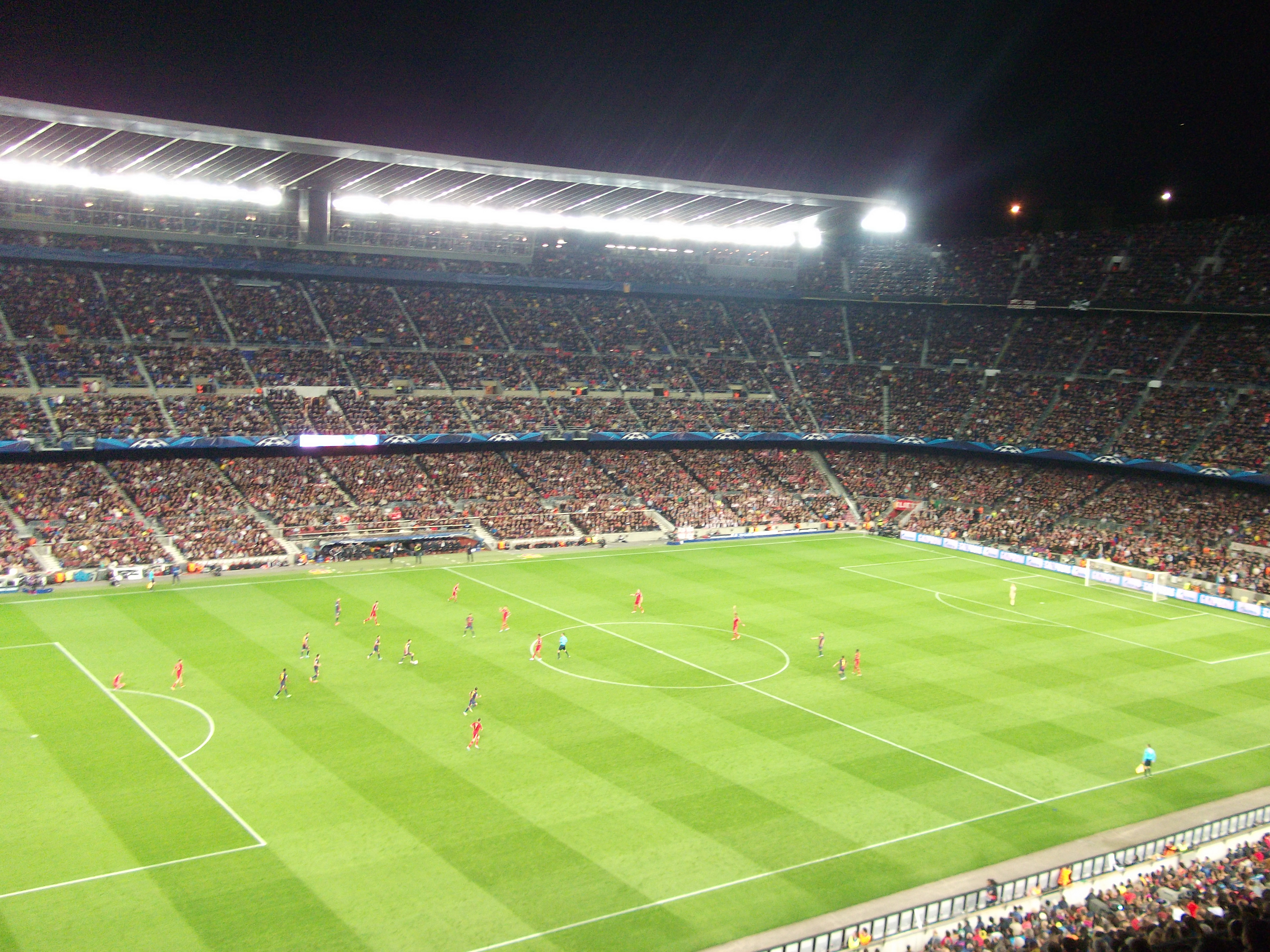 UEFA Champions League, Semi final, FC Barcelona - FC Bayern Munich, 01.05.2013